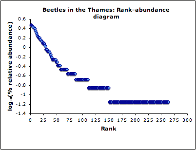 Rank-abundance diagram ("Whittaker plot") of beetles sampled from the river Thames showing a slight "s"-shape. (derived from data presented in Magurran (2004) and collected by Williams (1964))